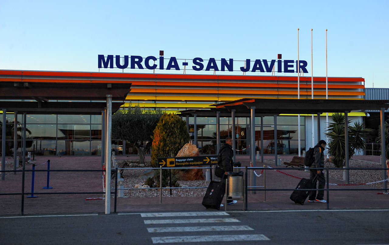 Murcia San Javier Airport 2013